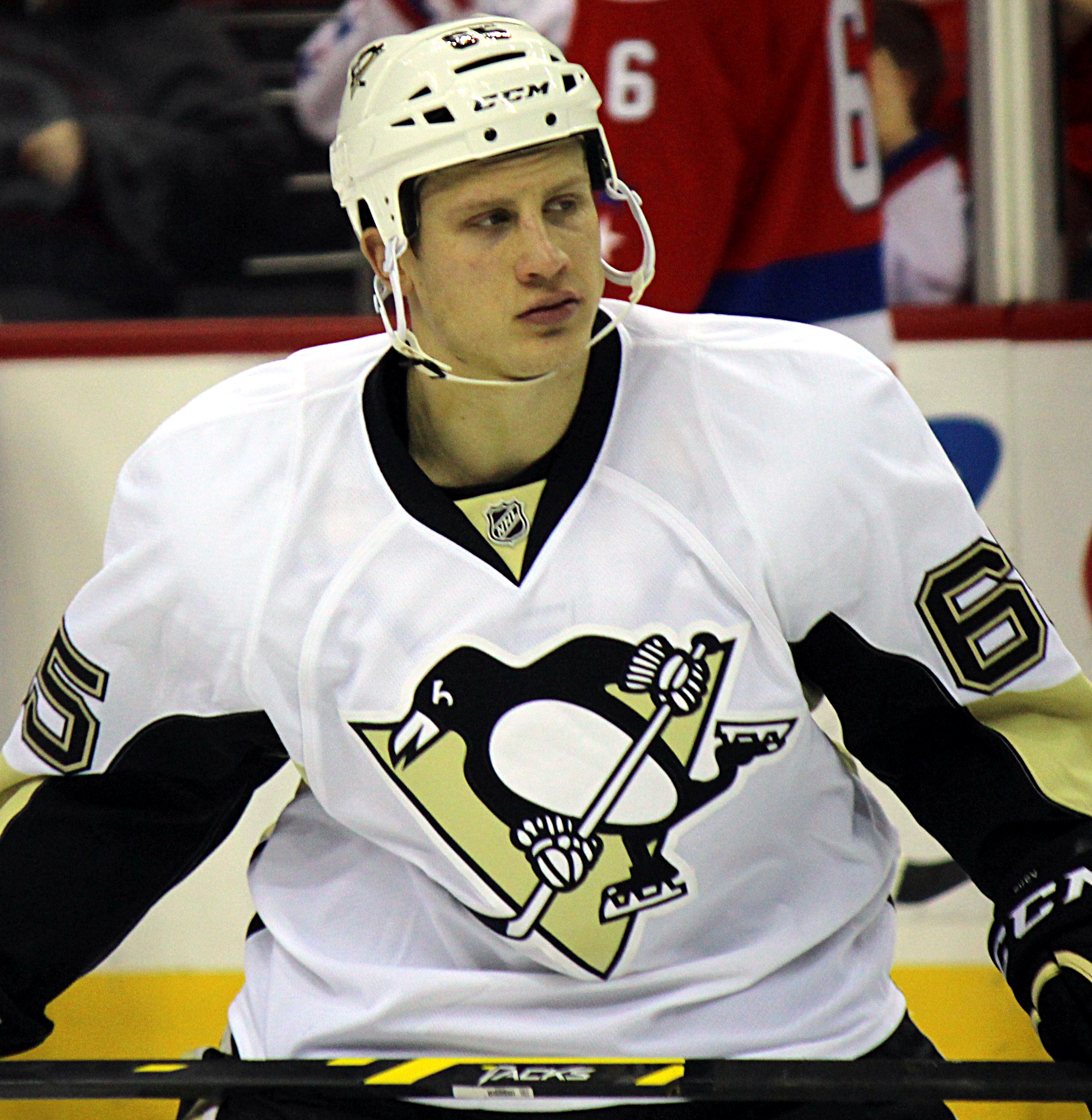 Pittsburgh Penguins defenseman Steve Oleksy during a game against the Washington Capitals, Thursday, April 28, 2016, at Verizon Center in Washington, D.C.